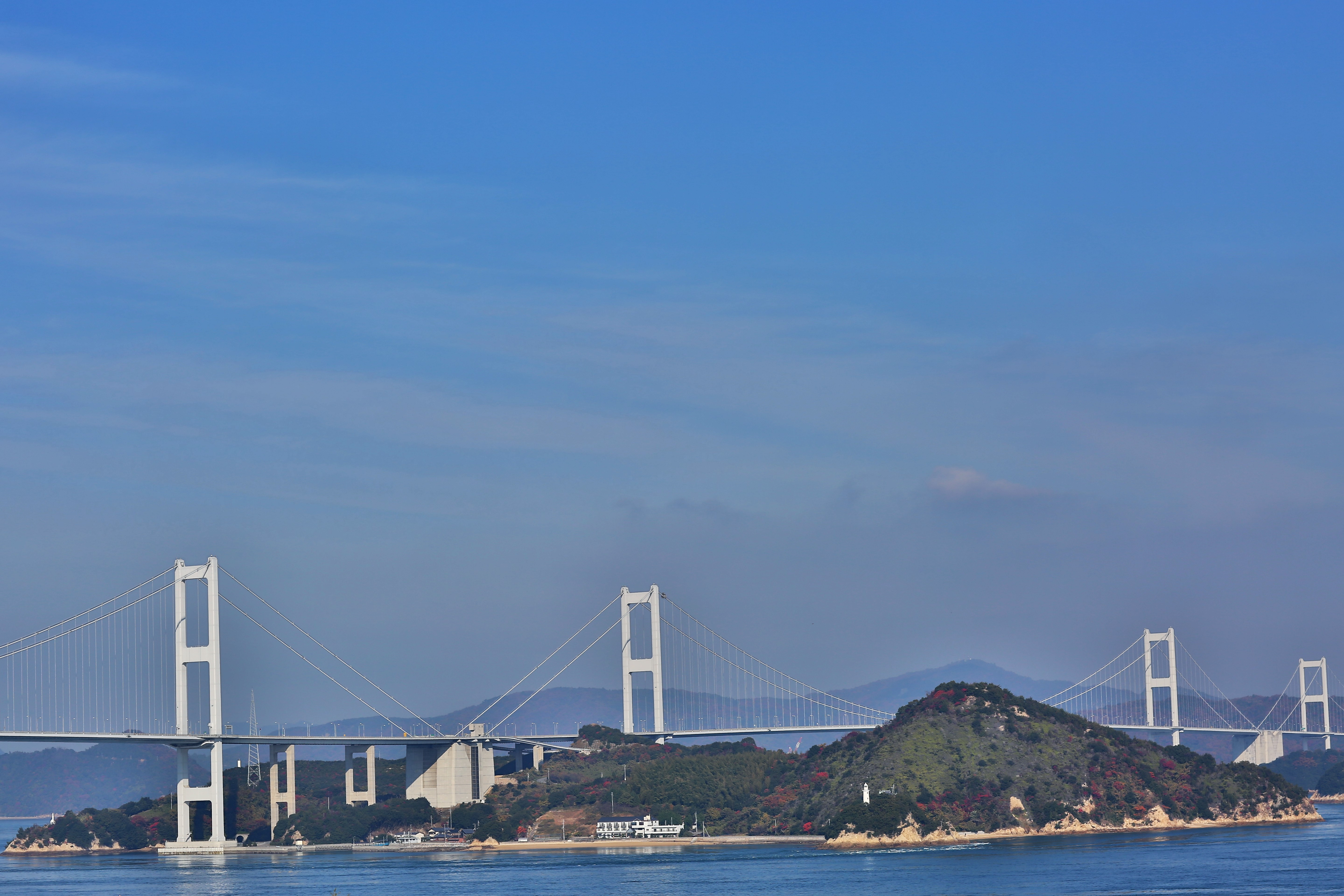 uma-island, imabari-city, ehime-pref, JAPAN.